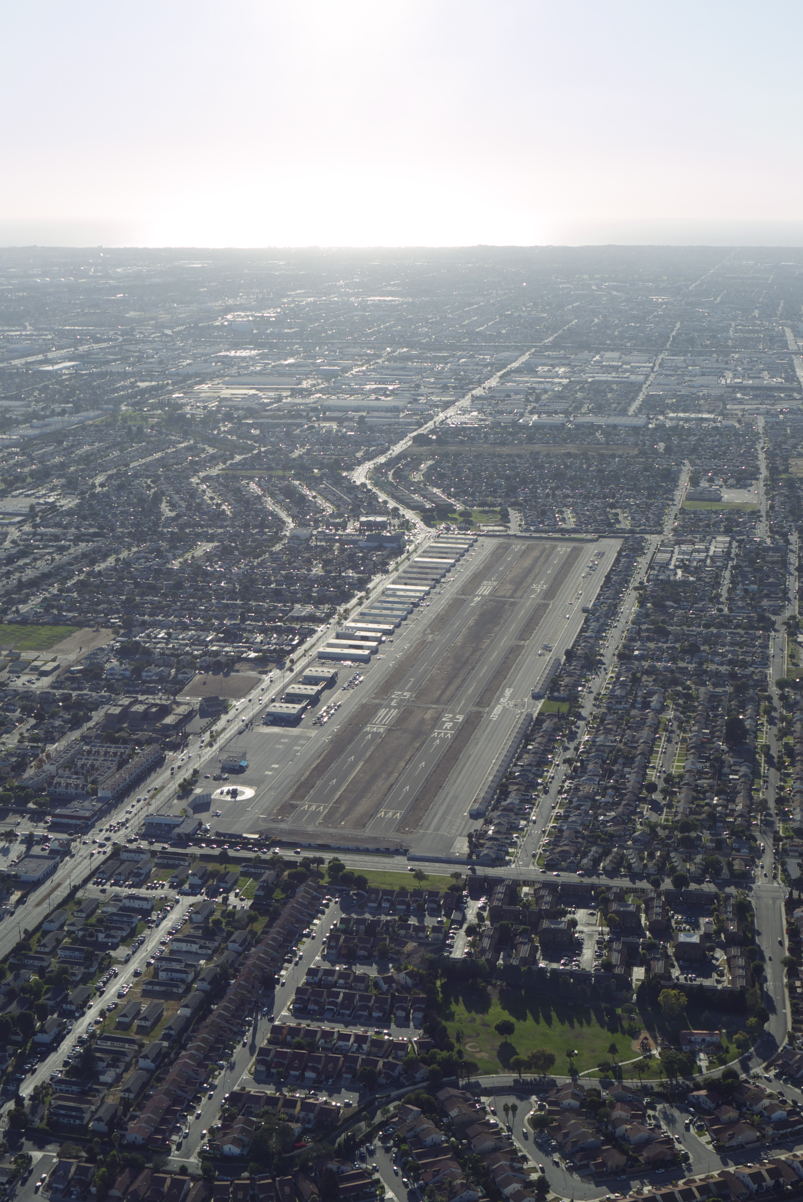 Aerial view of Compton-Woodley airport